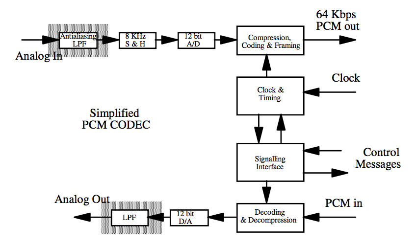 A telephony codec converts analog voice signals into a digital format compatible with the digital telephone system (and vice versa).